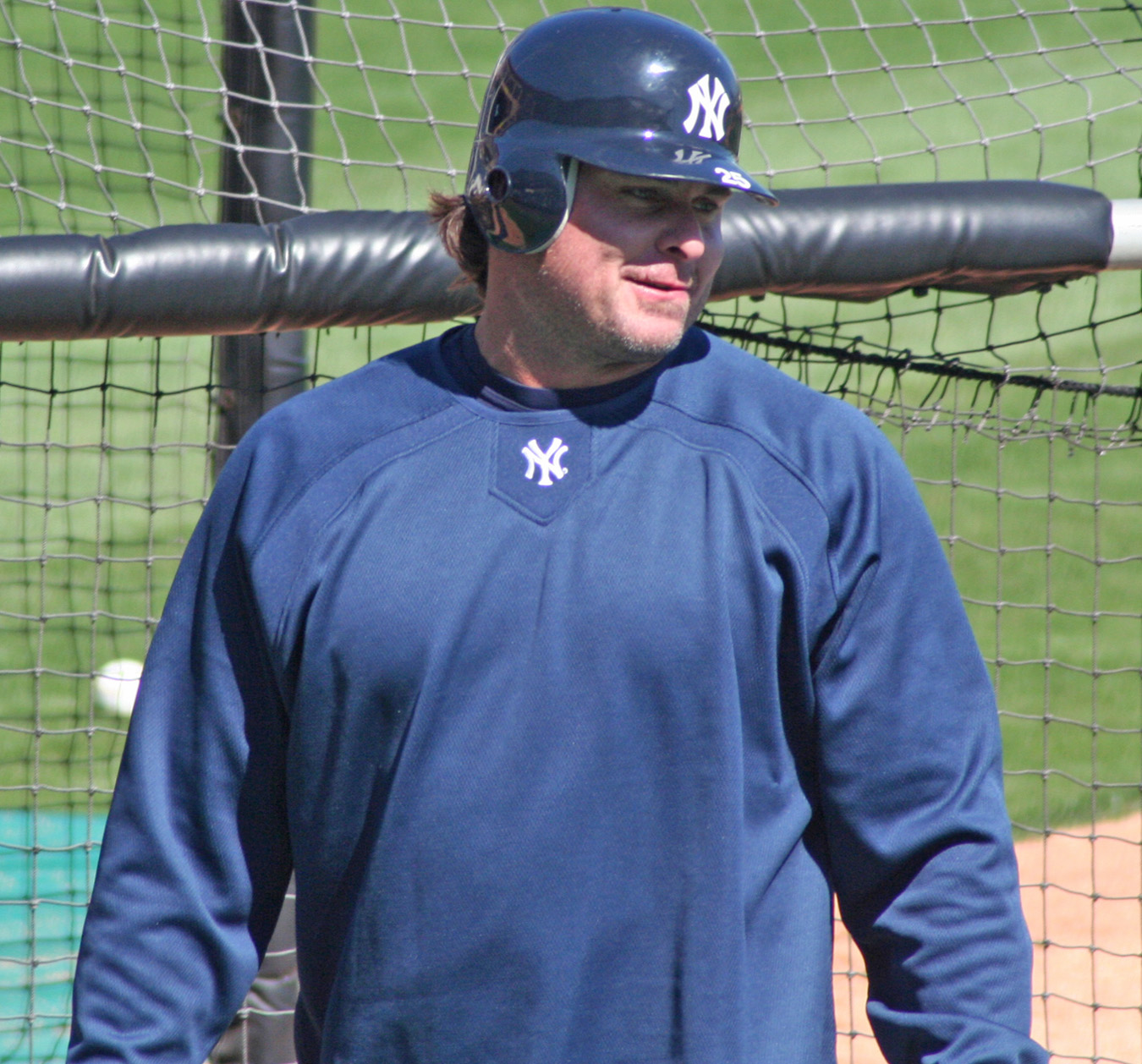 Photograph taken by Googie Man 07:37, 18 March 2007 . . Googie man . . 1350×1258 (501,854 bytes)